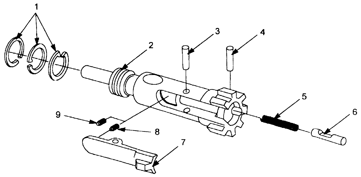 M16 bolt assembly 1 RING,BOLT 2 BOLT 3 PIN,EXTRACTOR 4 PIN,SPRING EJECTOR 5 SPRING,HELICAL,COMP COMPRESSION EJECTOR 6 EJECTOR,CARTRIDGE 7 EXTRACTOR,CARTRIDGE 8 SPRING ASSEMBLY,EXT EXTRACTOR (M16A2) 9 SPRING ASSEMBLY,EXT EXTRACTOR (M4 ND M4A1)(BLACK)